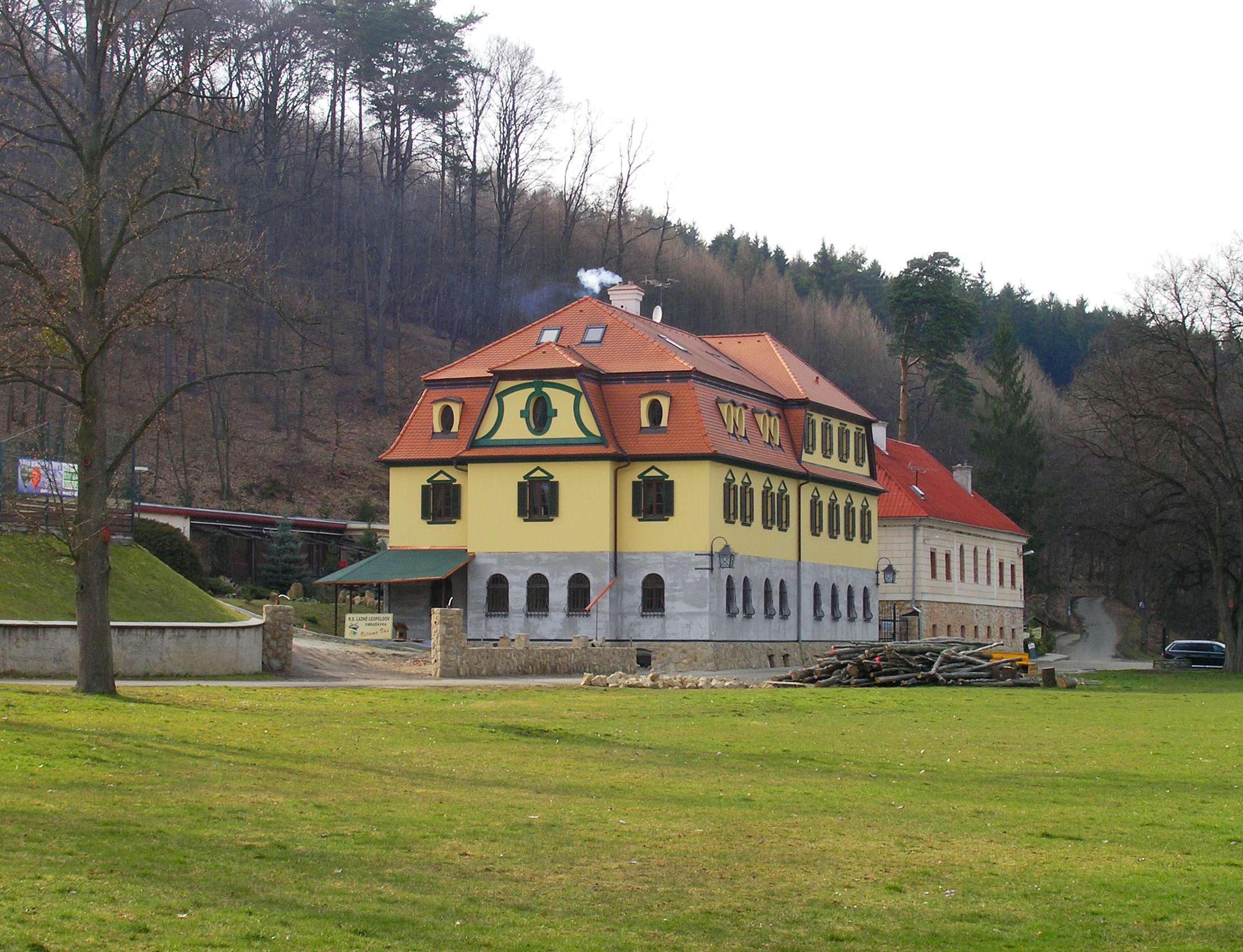 Smraďavka spa and castle, Czech Republic